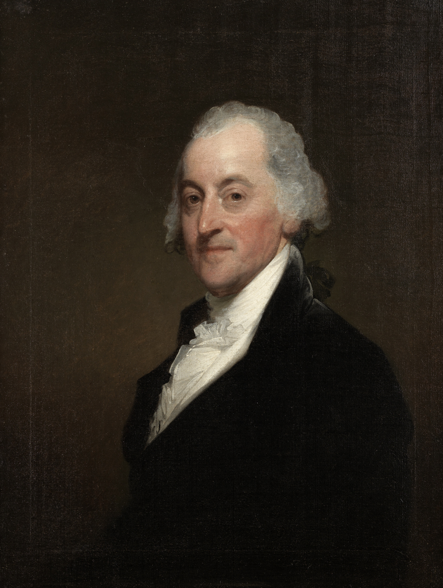 Samuel Griffin, US Representative from Virginia